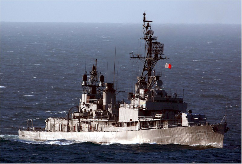 Pacific Ocean, June 21 2005, the Mexican Navy destroyer ARM Netzahualcoyotl (D-102), ex-USS Steinaker (DD-863). U.S. Navy photo by Photographer's Mate Airman Apprentice Christopher D. Blachly